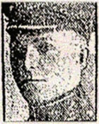 Private Albert Metherell Brimmell